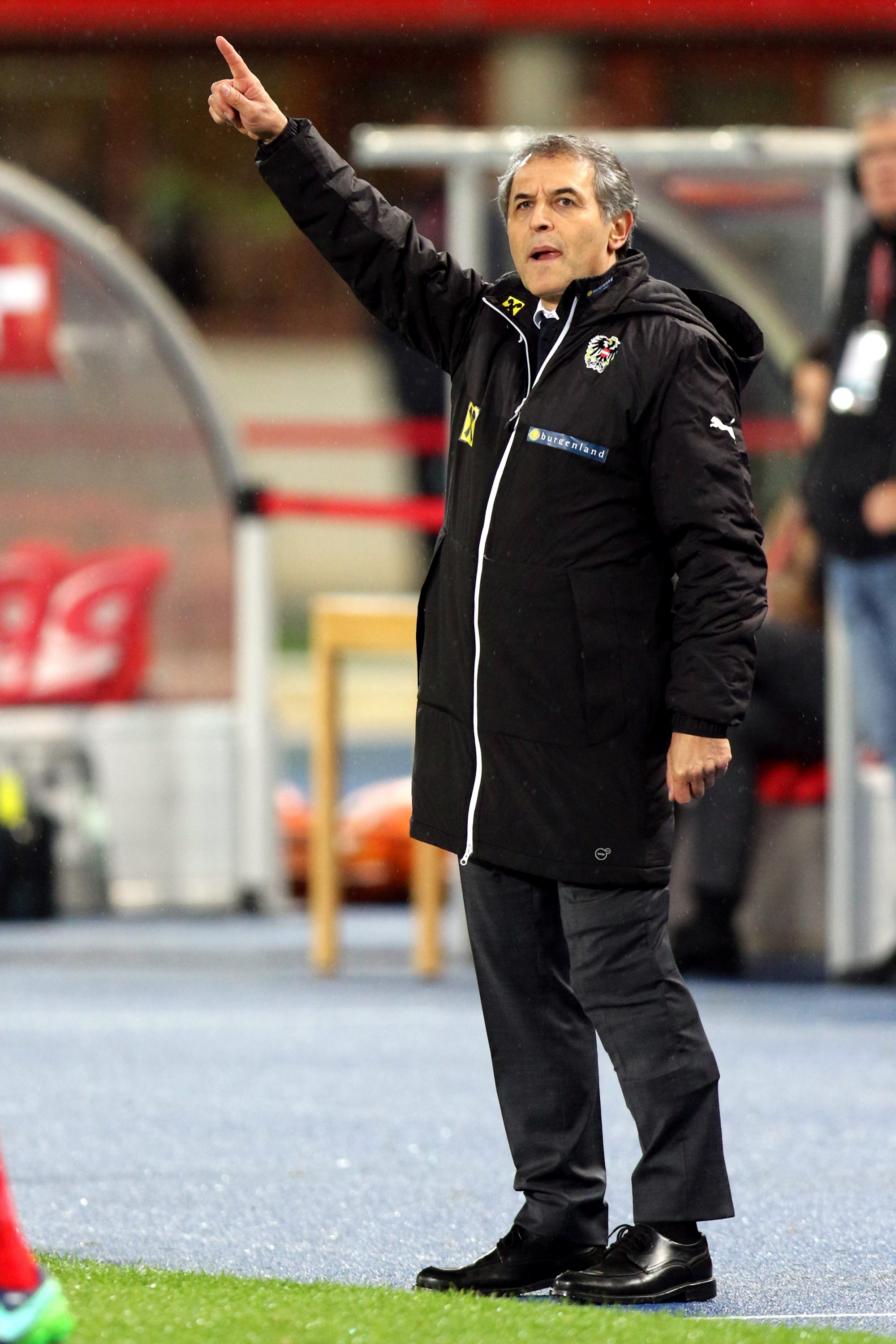 2018 FIFA World Cup qualification – UEFA Group D) – Austria (red shirts) vs. Wales (white shirts) 2-2 (1-2) – 2016-10-06 in Vienna, Ernst-Happel-Stadion – The photo shows teamchef Marcel Koller (Austria).